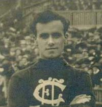 Jack Baquie in a Carlton team photo from 1909-1912